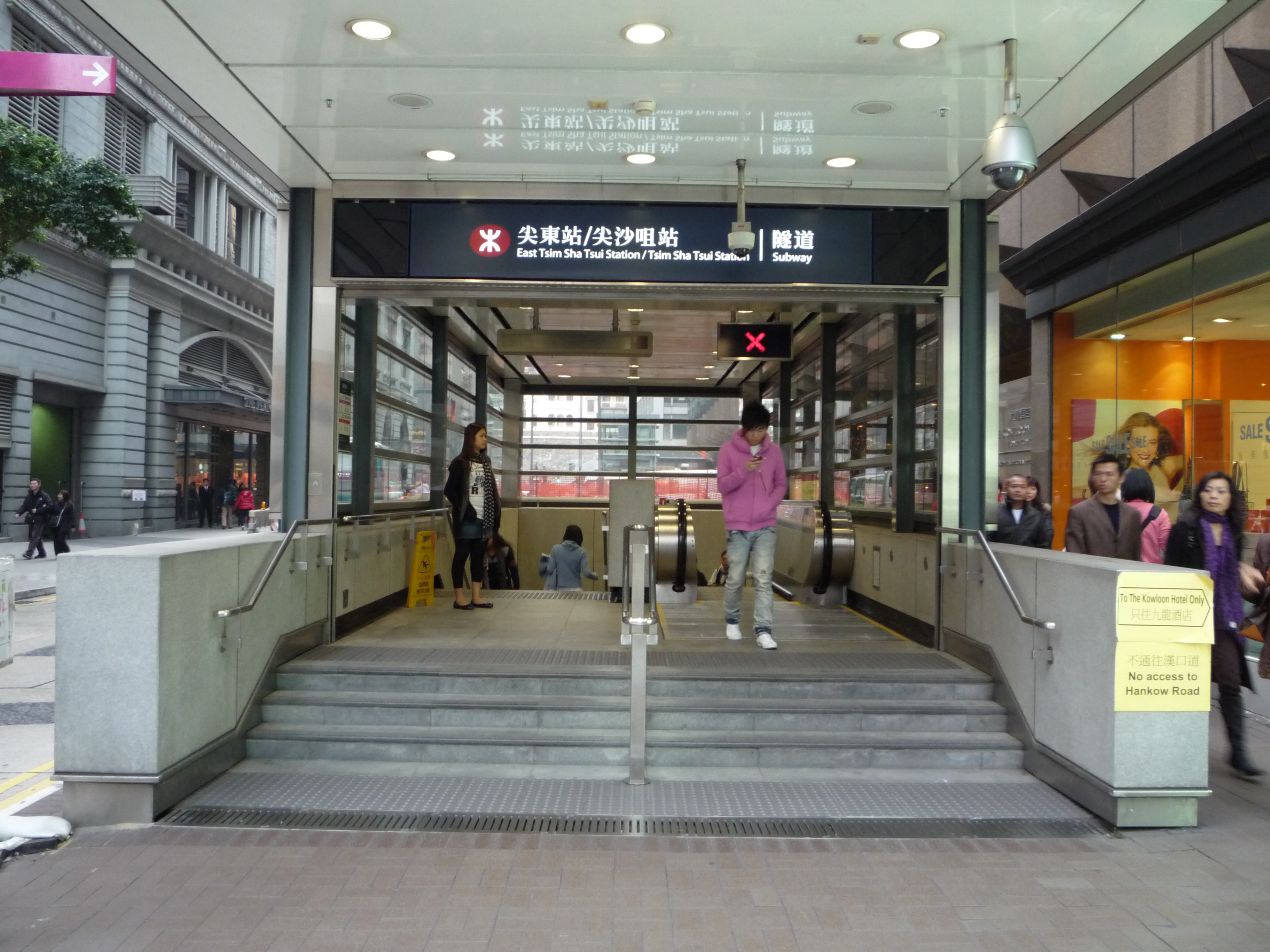 MTR East Tsim Sha Tsui Station/ Tsim Sha Tsui Station Exit R